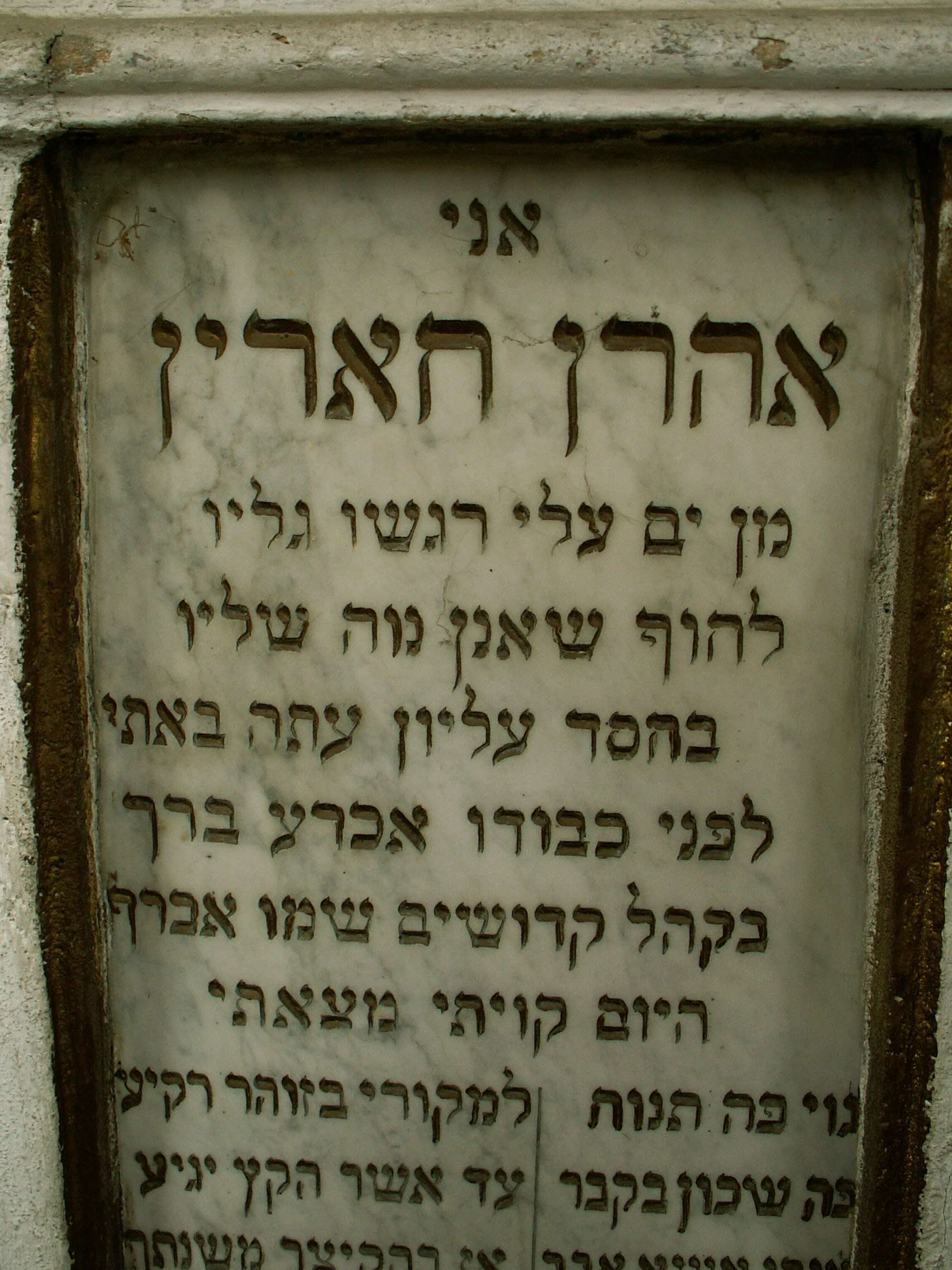 Upper Part of the gravestone of Rabbi Aron Chorin on the Jewish Cemetery in Arad.